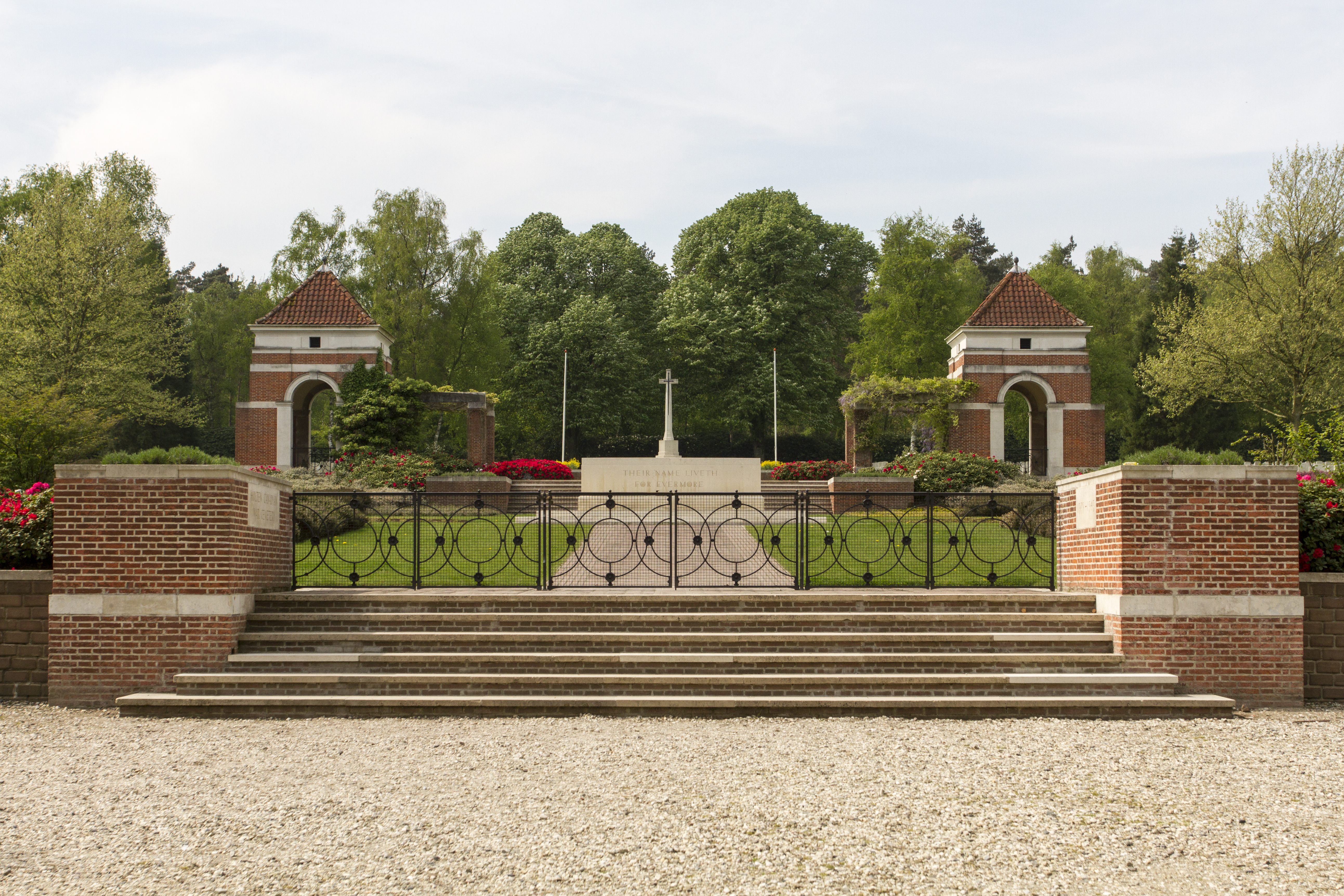 Canadian War Cemetery in the woods near Holten